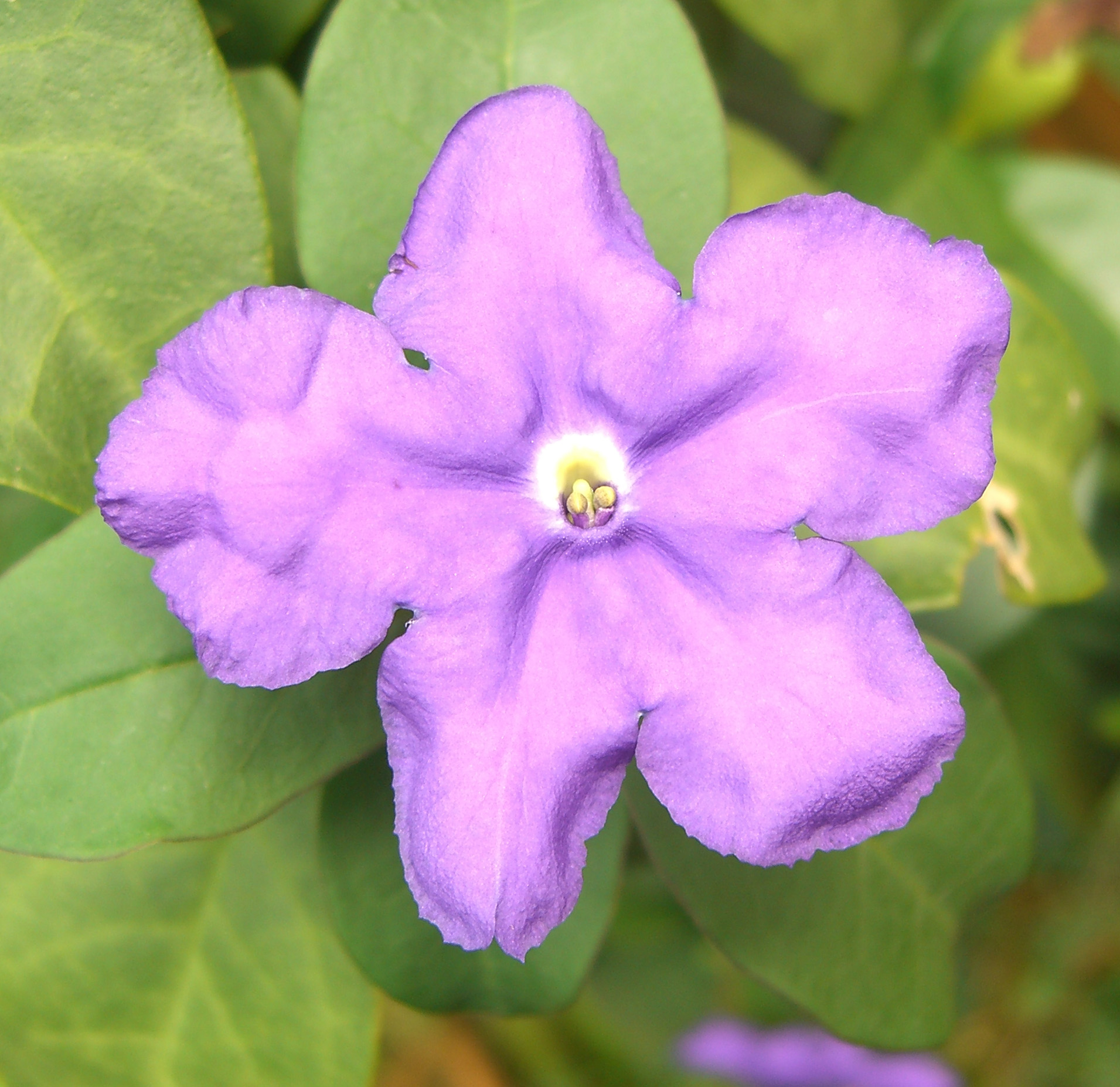 Description: Detail of the blossom of Brunfelsia pauciflora